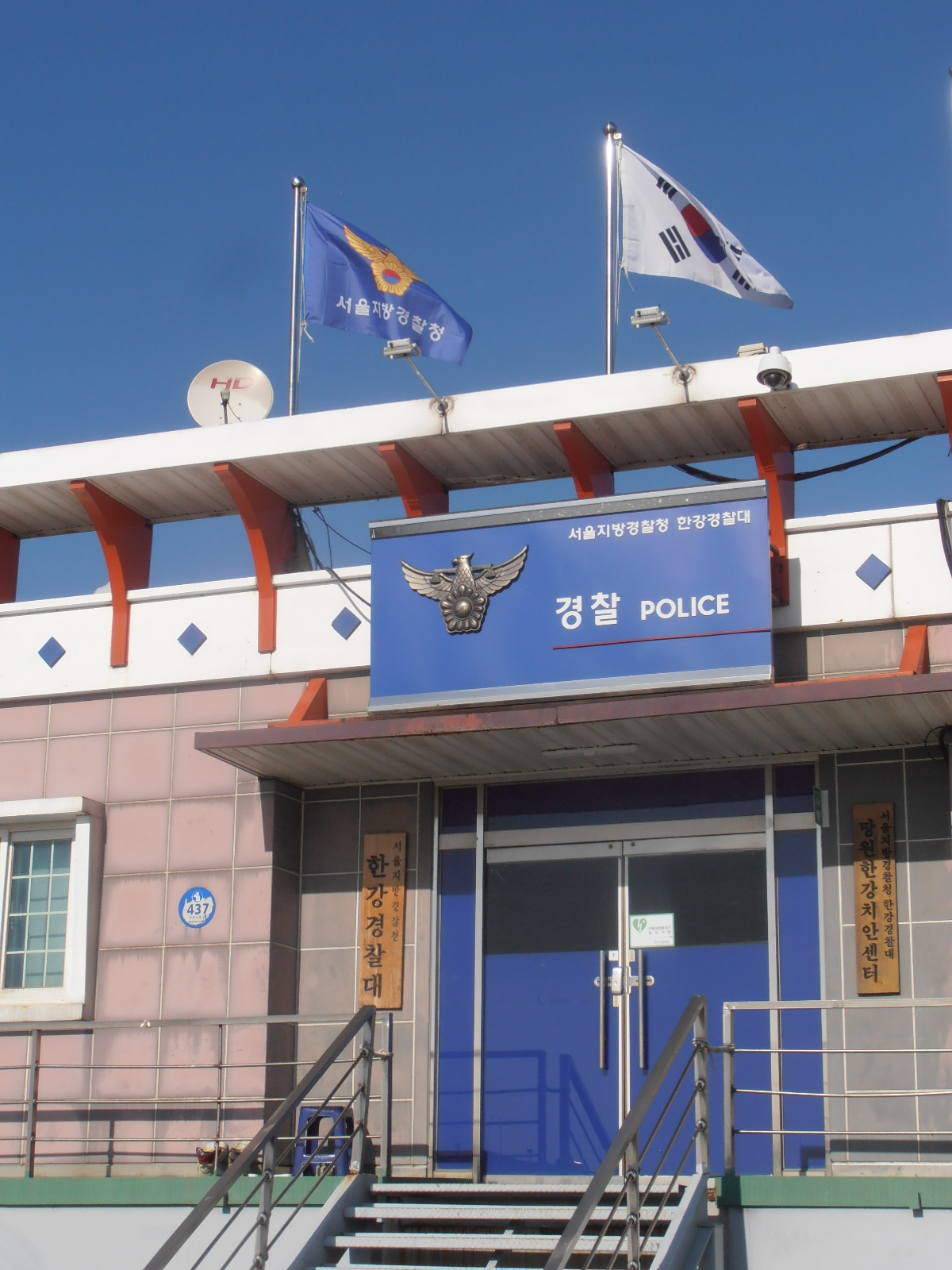 Police station at the Hangang bikeway (Mangwon-dong, Mapo-gu. The whole office is built on a pontoon: in highwater situations it is elevated by the Hangang flood level, and floats automatically.)